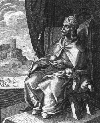 Béla III of Hungary